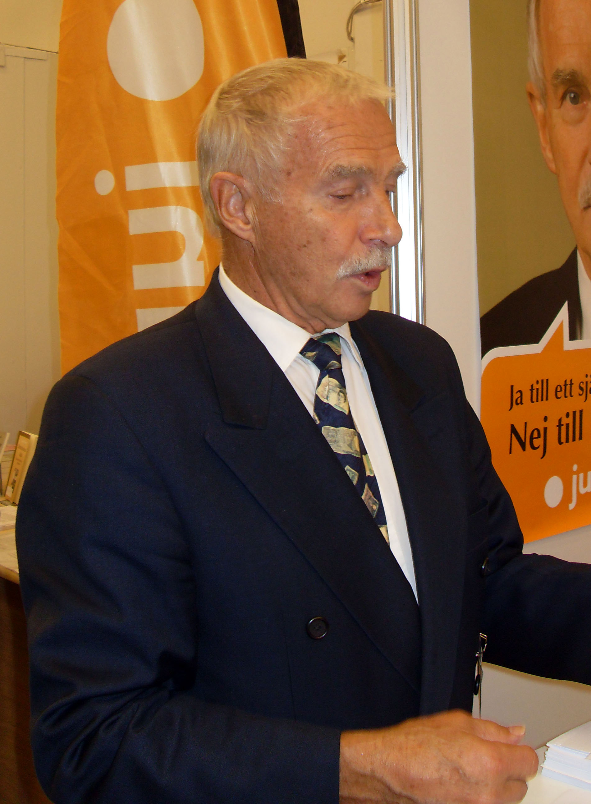 Nils Lundgren, swedish politician at Gothenburg Book Fair 2008